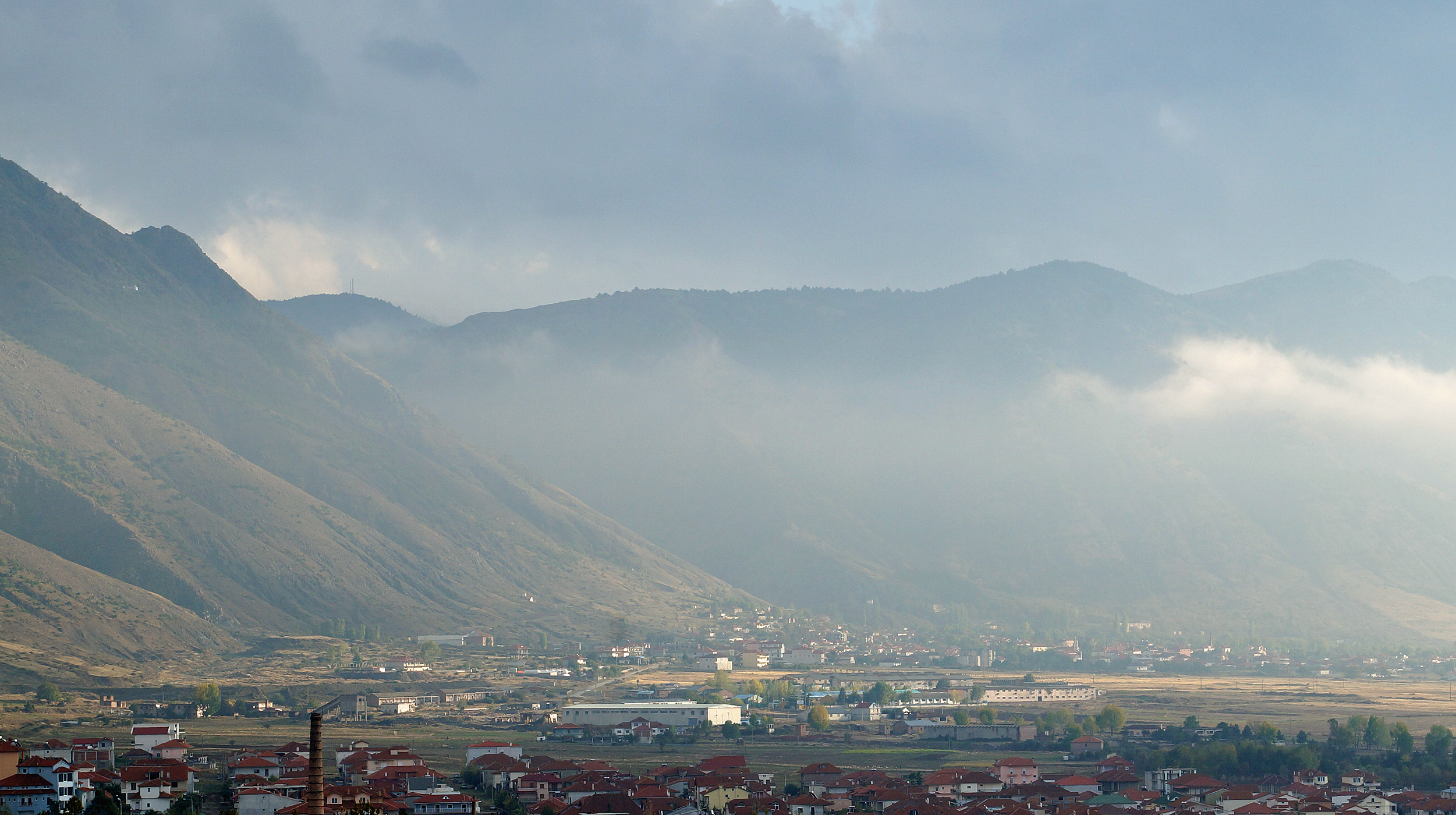 Movrava Mountains and village of Drenovë seen from Korça – southeast Albania